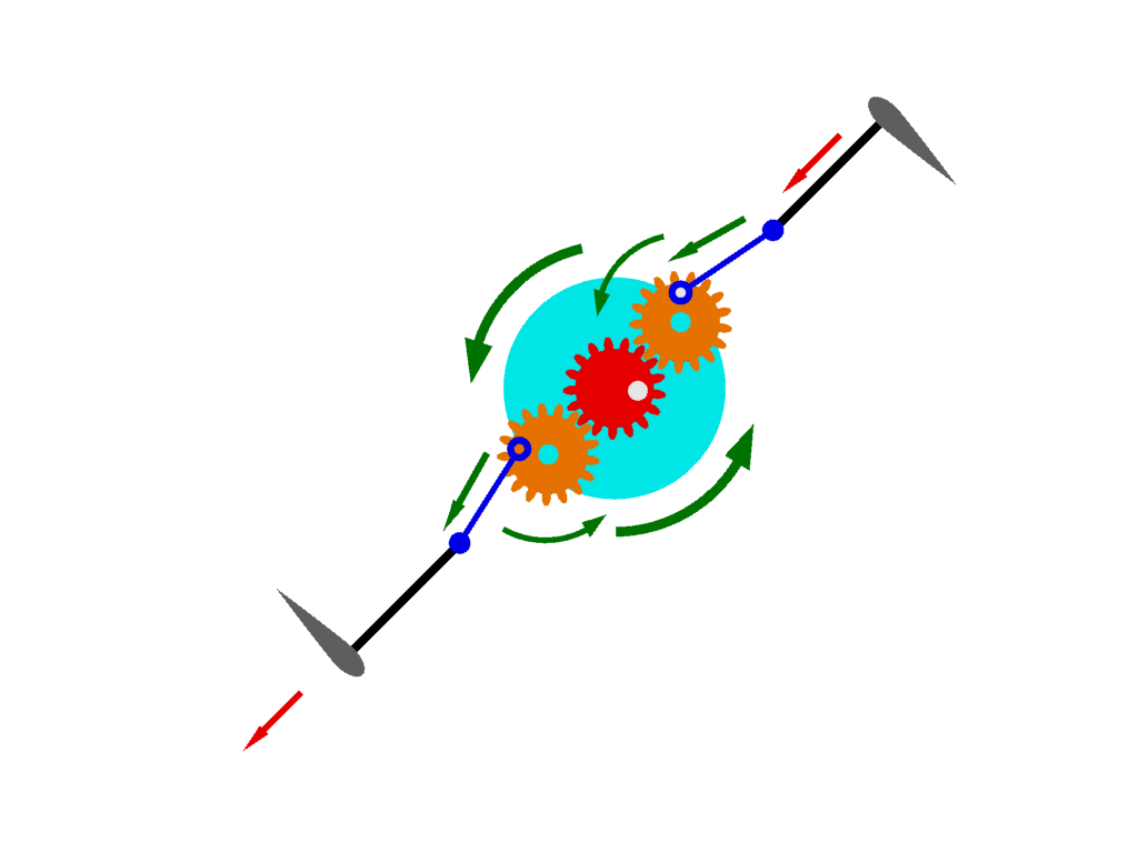 The active lift turbine is partially transferring these normal forces thanks to the crank rod system into kinetic energy